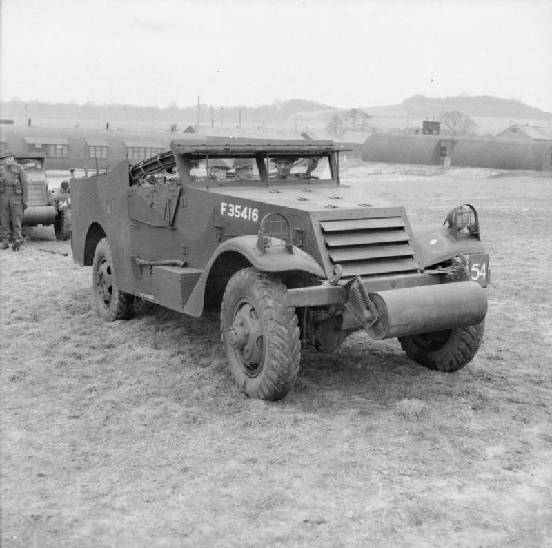 The British Army in the United Kingdom 1939-45 White Scout Car of the Grenadier Guards, Guards Armoured Division, 3 March 1942.